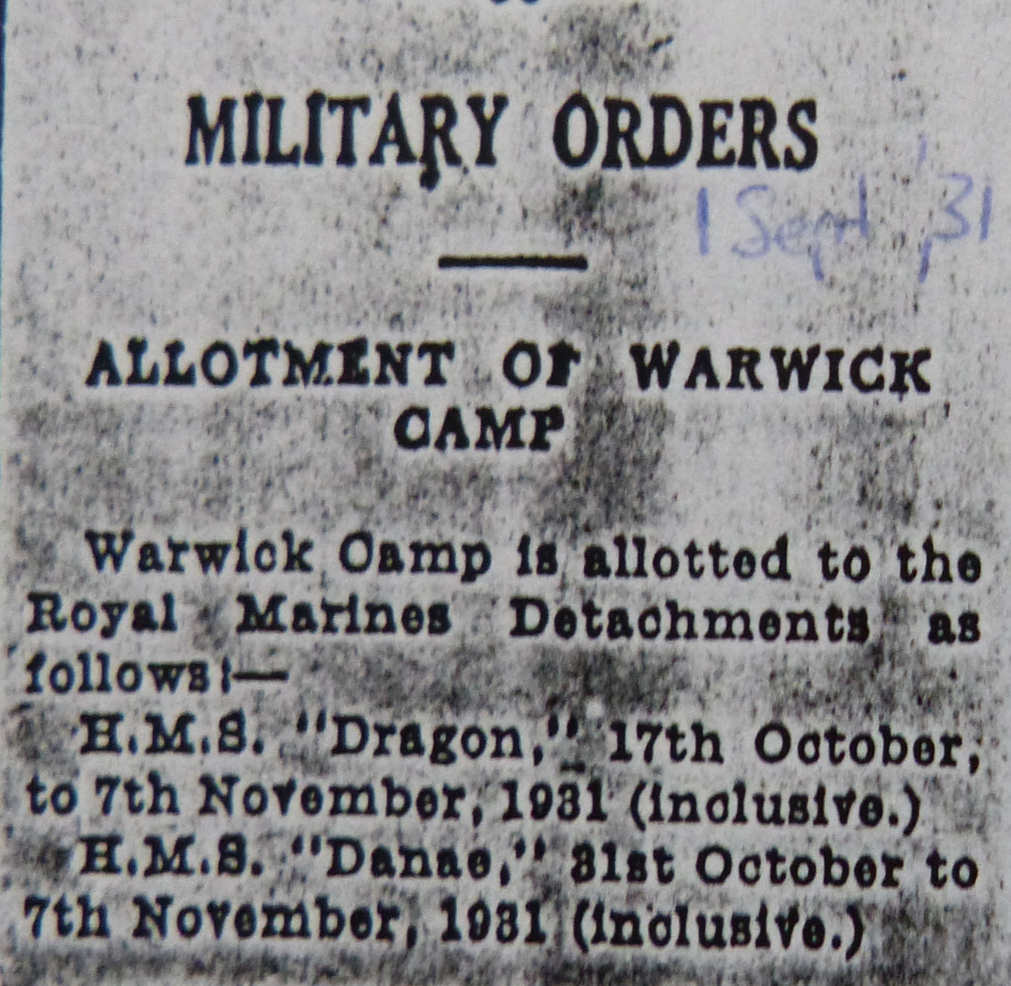 Military Orders from the Command Headquarters of the Bermuda Garrison concerning the allotment of Warwick Camp between the 17th of October and the 7th of November, 1931. The camp comprised the garrison ranges and field training areas, and was shared by various army units on the island, as well as by Royal Marines detachments (as here) from the Royal Naval Dockyard and from the ships based there. Published in The Royal Gazette on the 1st of September, 1931.